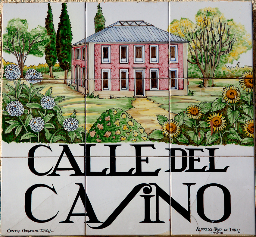 Sign of Calle del Casino (street, Centro district) in Madrid (Spain).